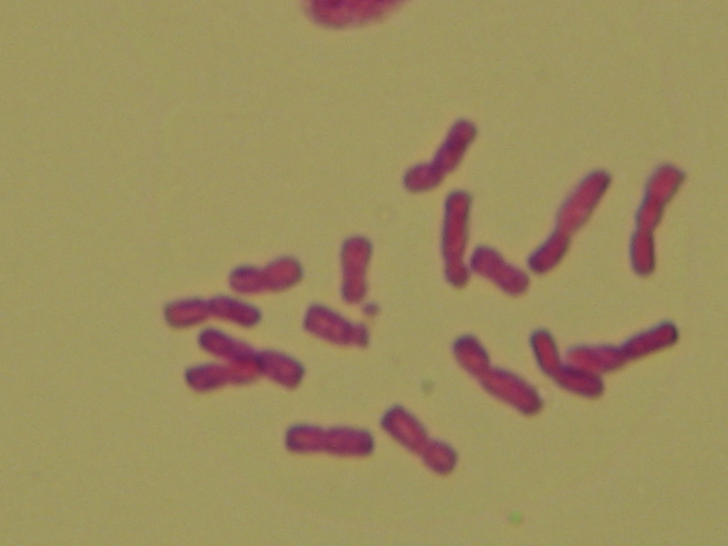 Feulgen stained chromosomes of Allium ascalonicum examined under microscope